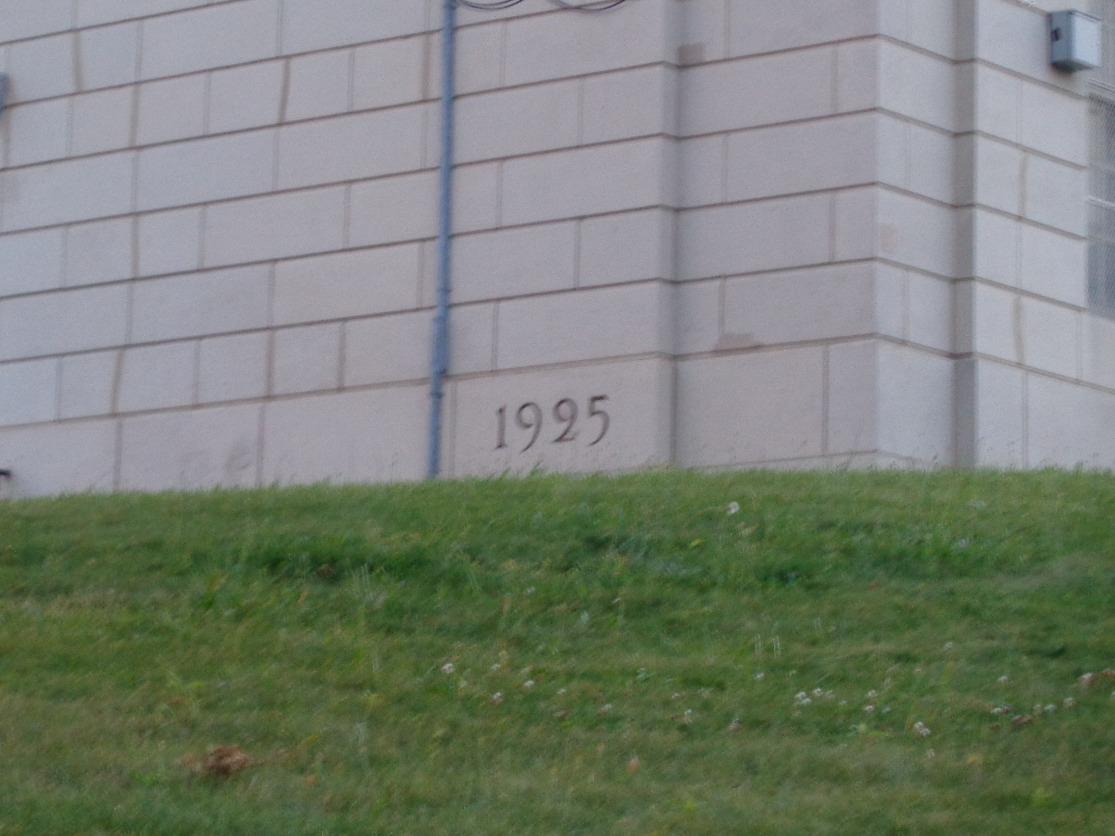 A brick (the cornerstone?) at the southeast corner of Jamaica High School in Jamaica, Queens. The building broke ground in 1925, replacing the original building on Hillside Avenue.